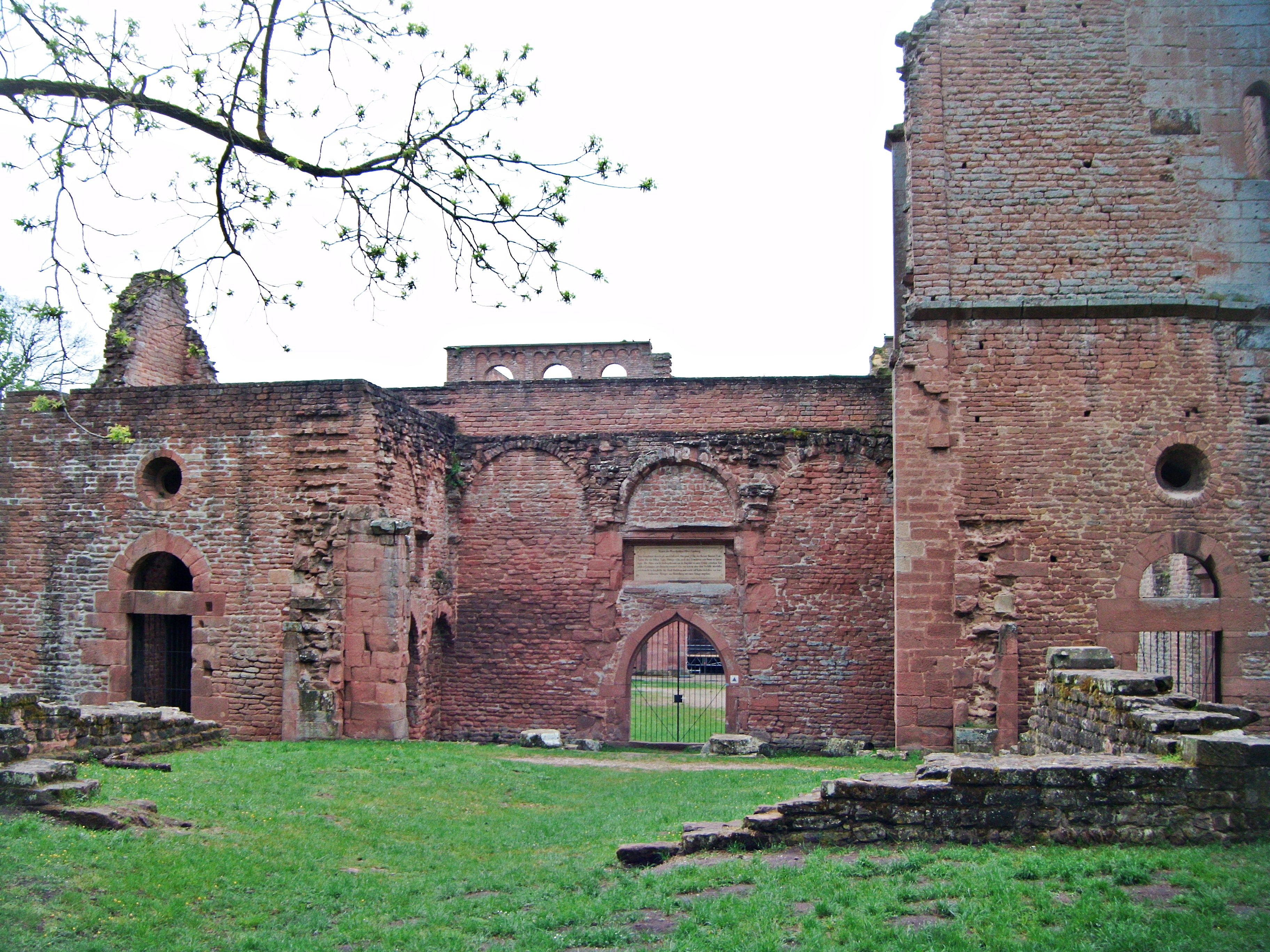 Klosterruine Limburg von Westen